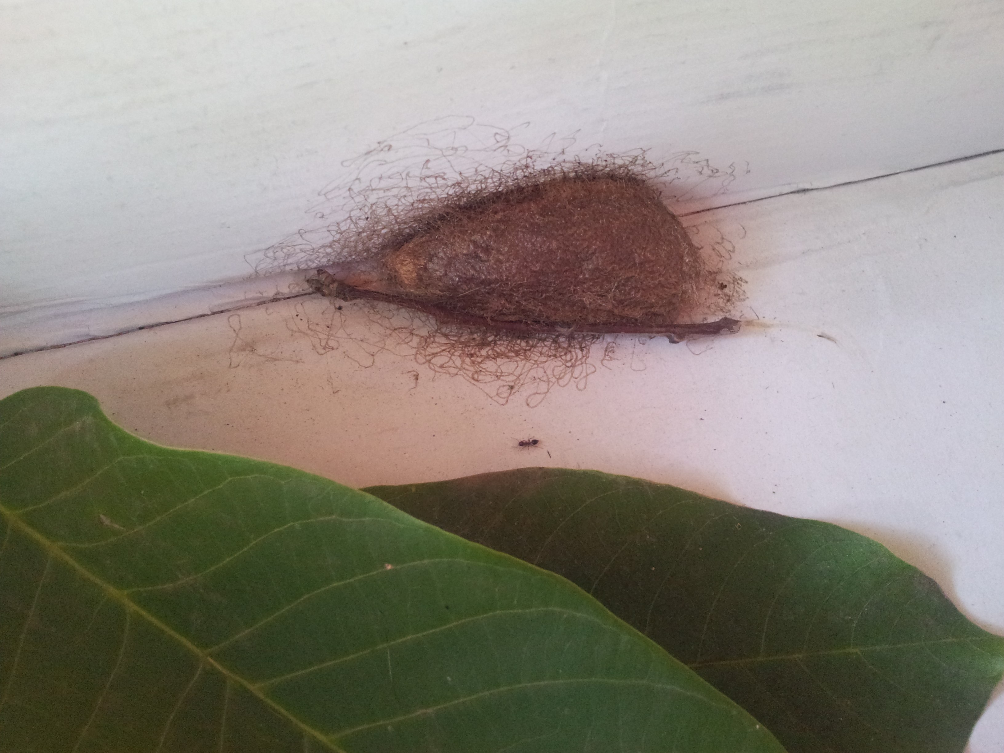 Saturnia pyri